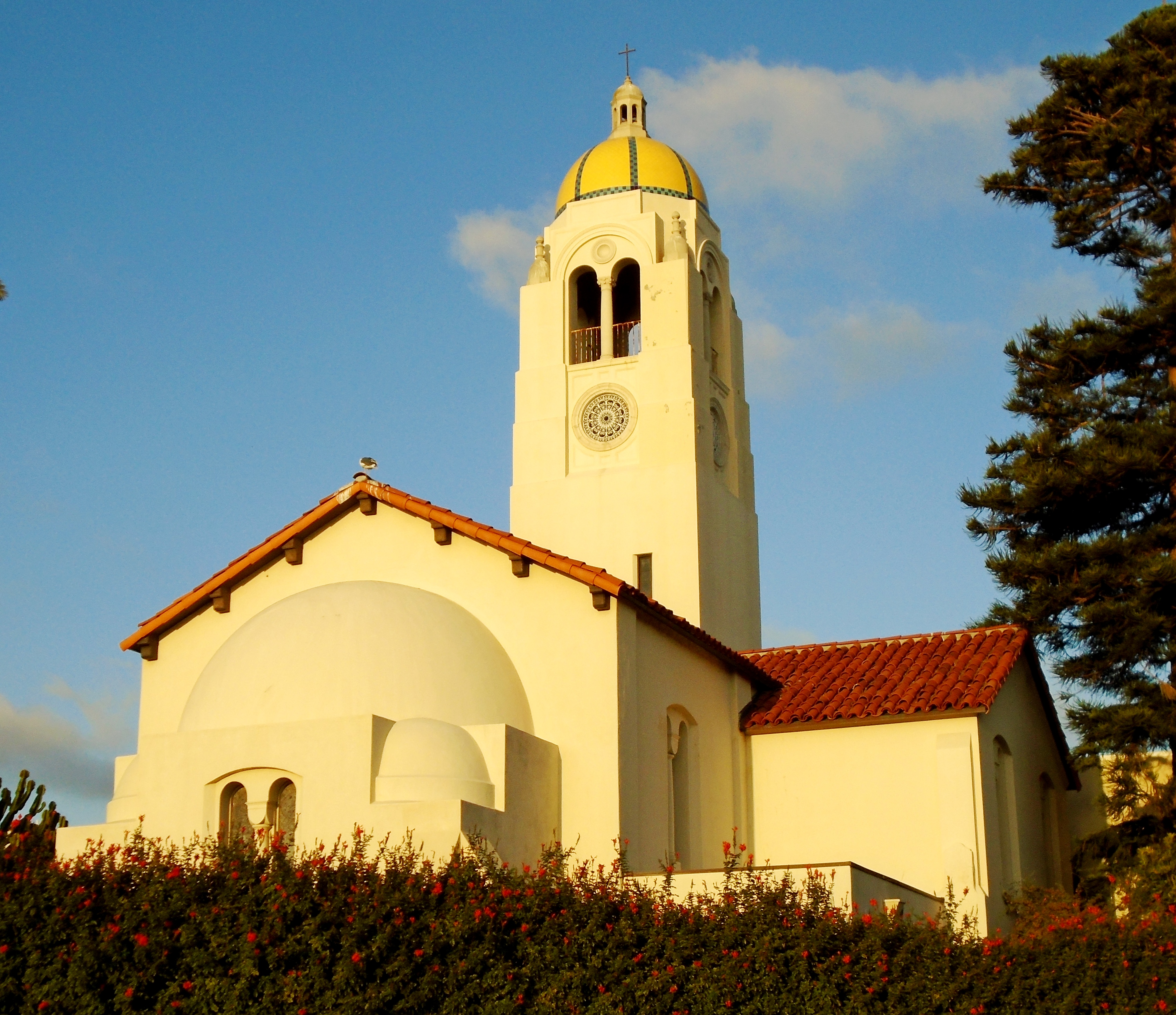 The Bishop's School, located at 7607 La Jolla Boulvard, is an Episcopalian college preparatory day school in La Jolla, San Diego, California. The original buildings were designed by architect Irving Gill in 1909. The school is a designated historical landmark of the City of San Diego.